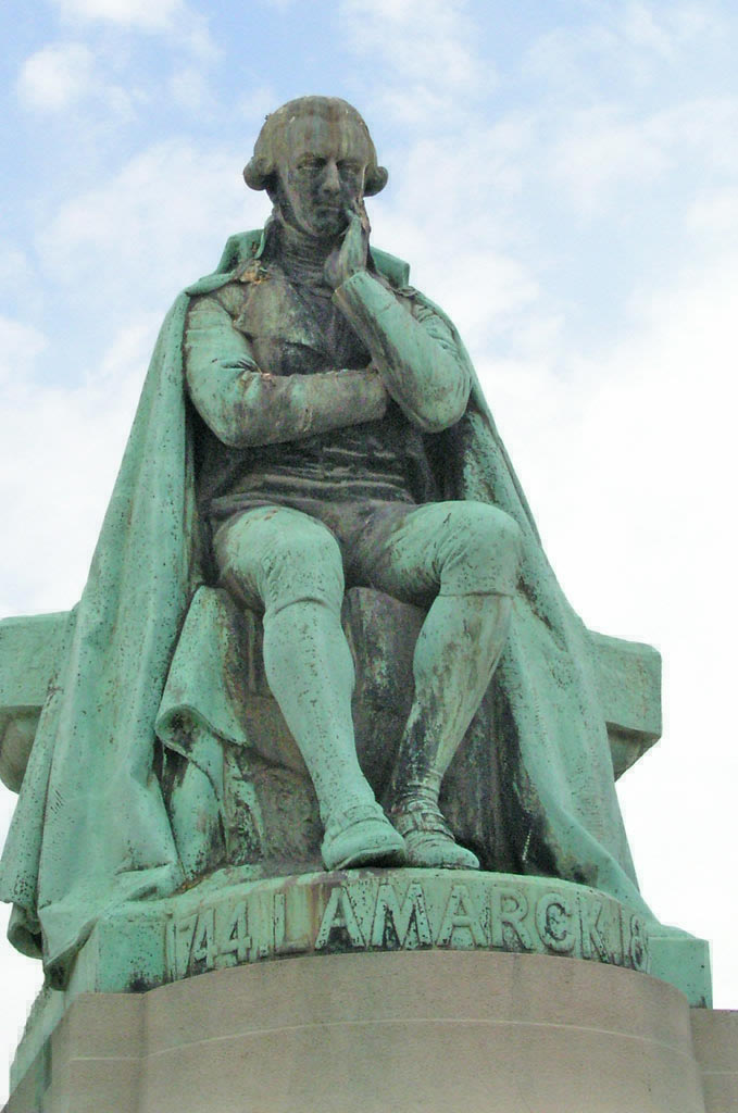 Statue of the French naturalist Jean-Baptiste Pierre Antoine de Monet, chevalier de Lamarck (1744–1829) by Léon Faget (French, 1851–1913). Bronze, 1908. In front of the Place Valhubert entrance of the Jardin des Plantes in Paris.